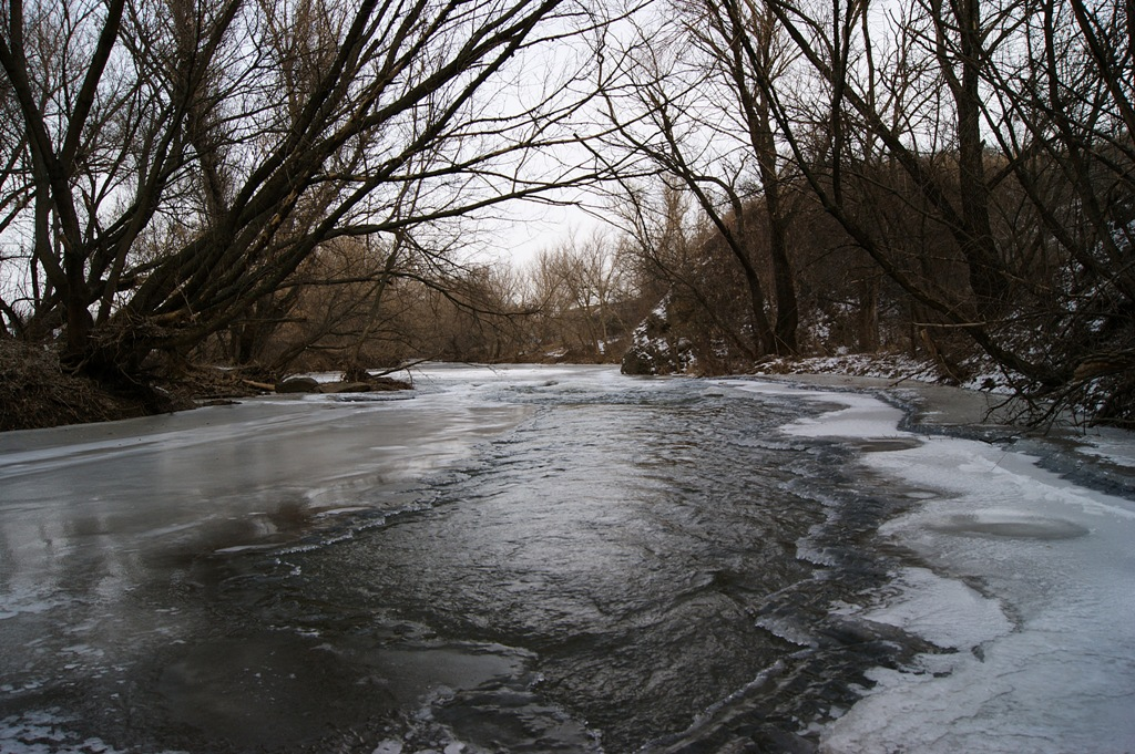 River "Bolshaya Kamenka" Krasnodon Ukraine.